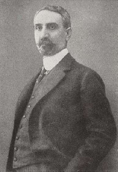 Alexandar Malinov, Bulgarian politician and twice prime minister of his country.